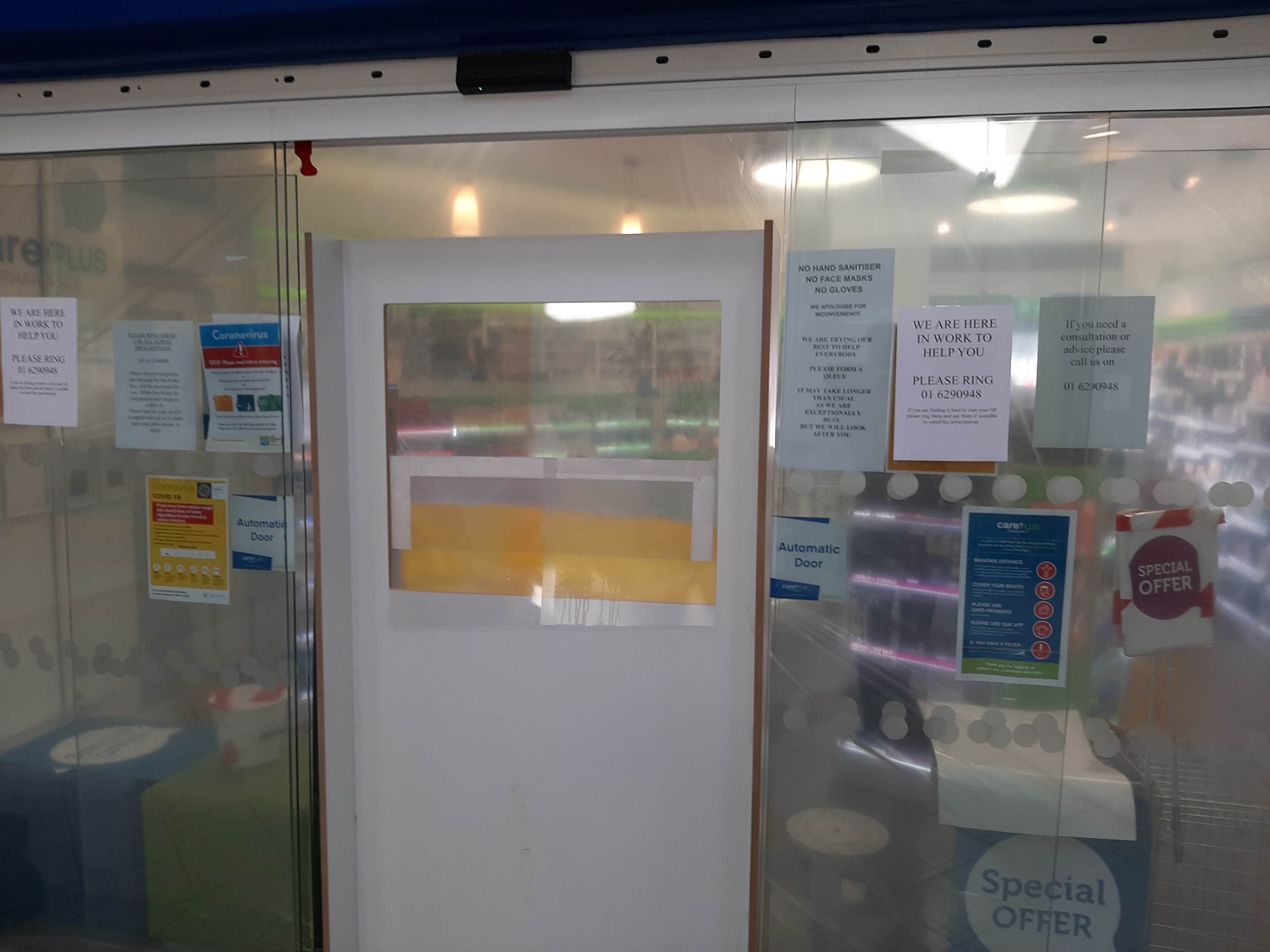 Pharmacy in Ireland during the 2020 coronavirus pandemic. The door has been replaced by a hatch through which goods can be passed.